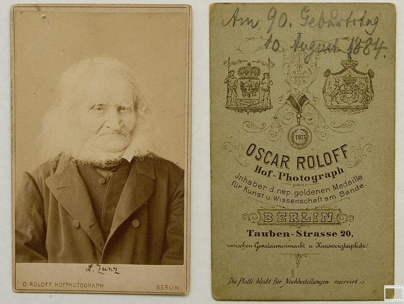 For more information about the intriguing album that this image is a part of, please see the set description. One of many images that I am slowly importing from my website. See the original at